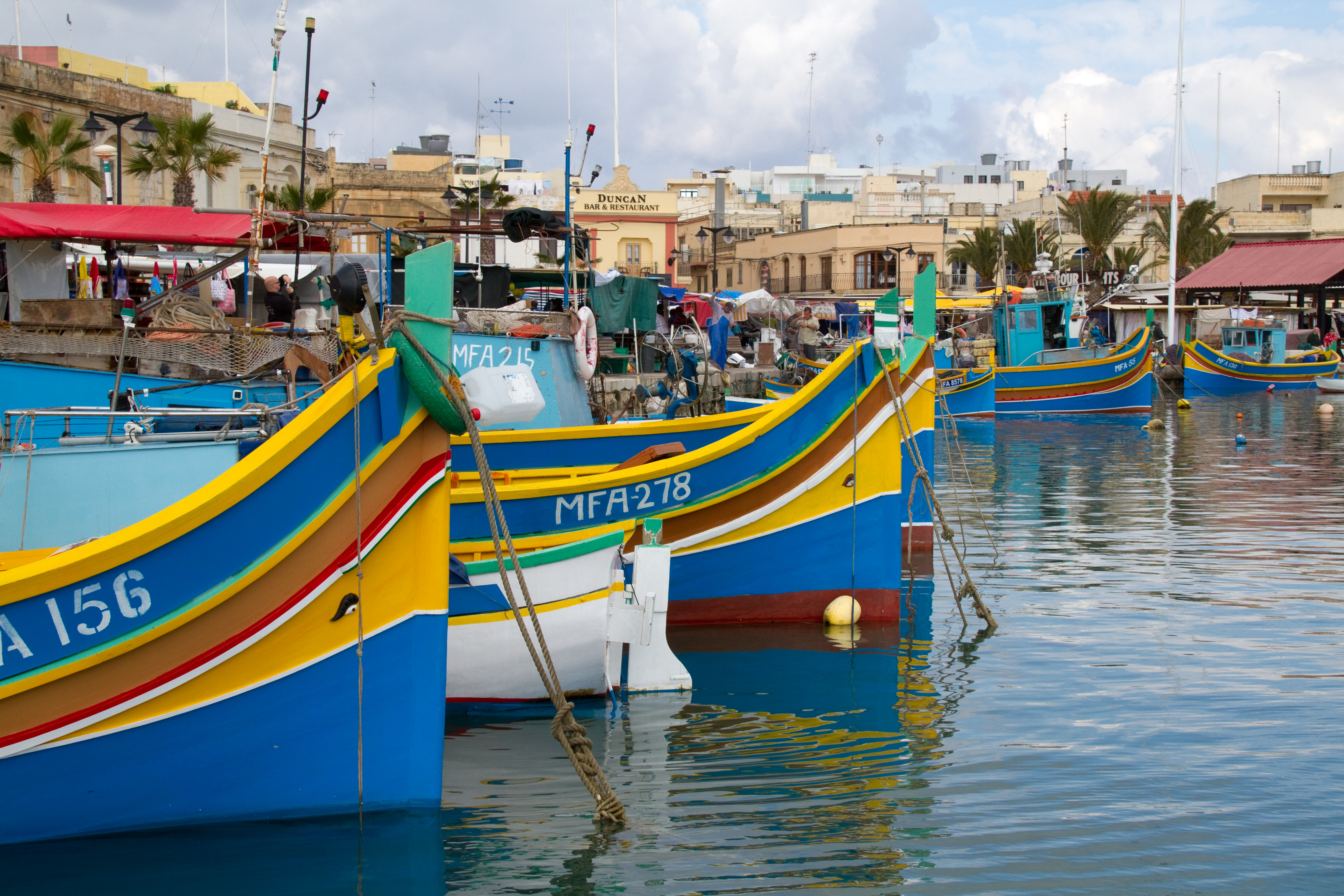 Fishing boats at Marsaxlokk 9